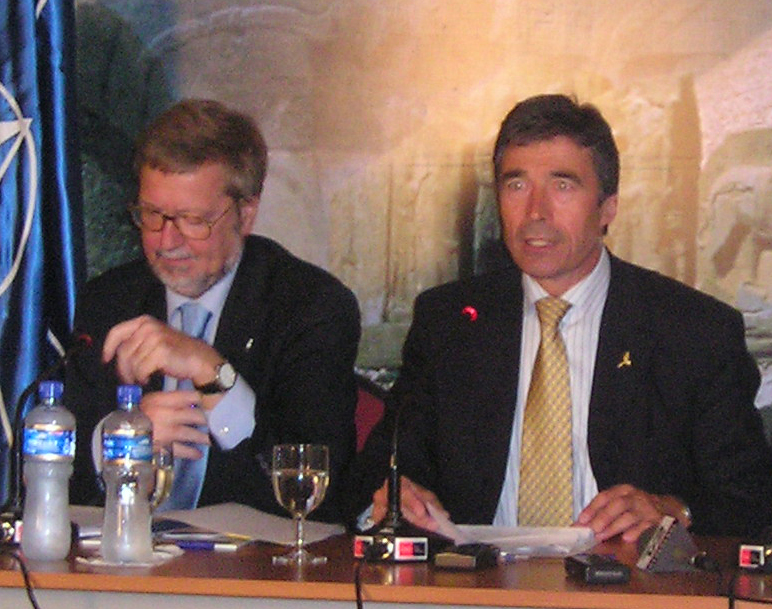 Danish Minister of Foreign Affairs Per Stig Møller and Danish Prime Minister Anders Fogh Rasmussen. Istanbul NATO Summit 2004. Photo by Bertil Videt